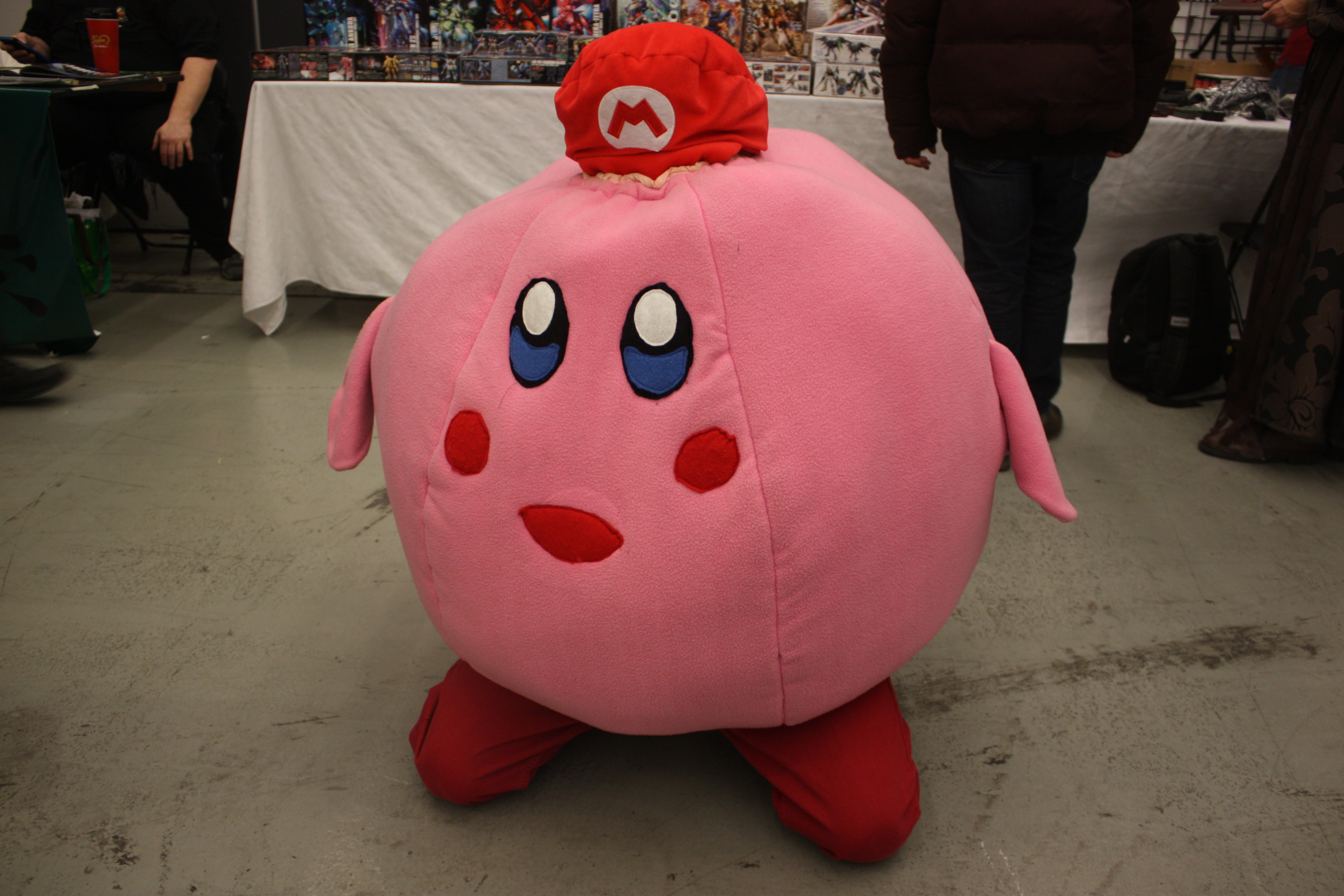 Montreal Mini-Comiccon 2014: Kirby